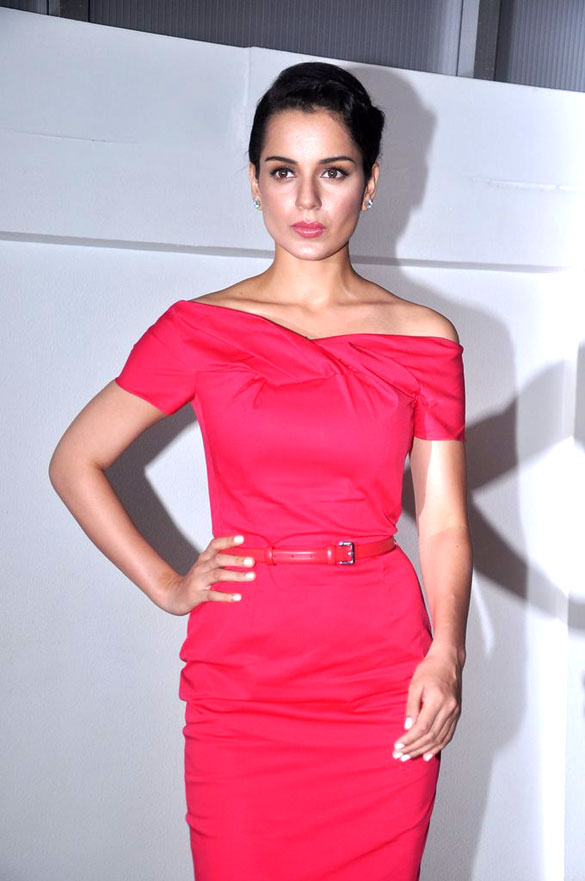 Kangana ranaut 2012